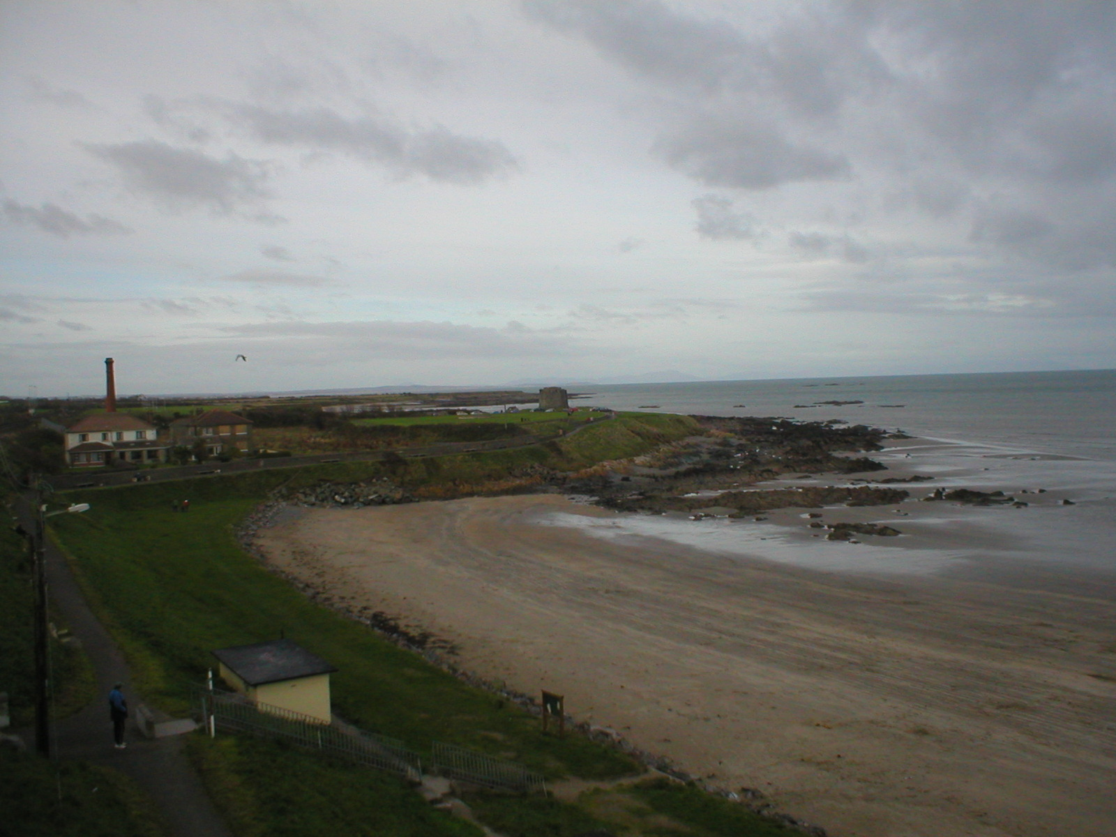 Balbriggan beach with Martello tower in the background.